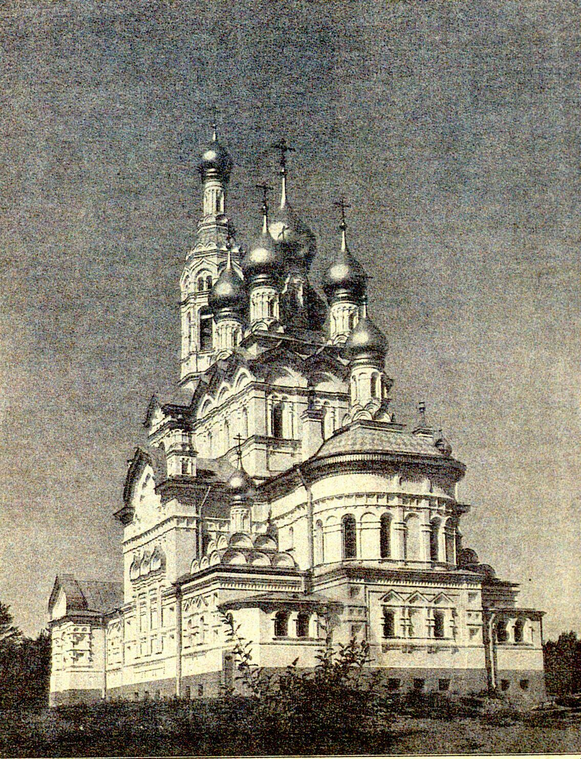 Zelenogorsk (Russia)